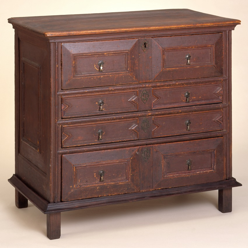 United States, 1670-1700 Furnishings; Furniture Pine, paint, brass Gift of Mr. and Mrs. Murray Braunfeld (M.67.66) Decorative Arts and Design